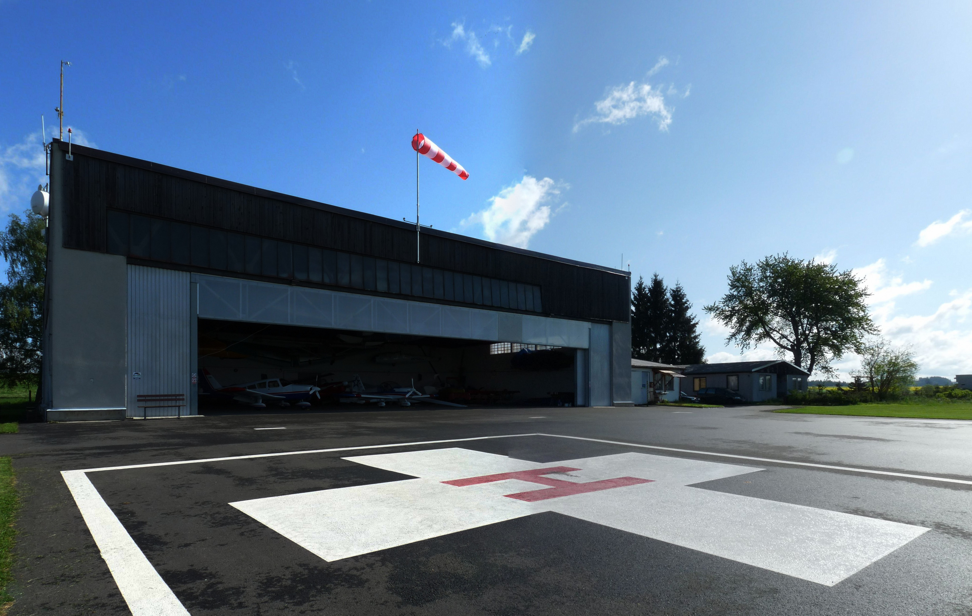 Airport in the town of Přibyslav, Havlíčkův Brod District, Vysočina Region, Czech Republic.